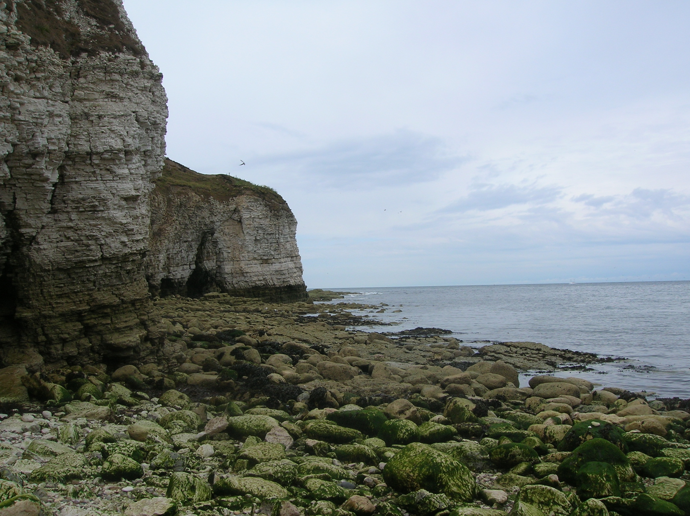 Cliffs at Flamborough Head, Flamborough, East Riding of Yorkshire, England.